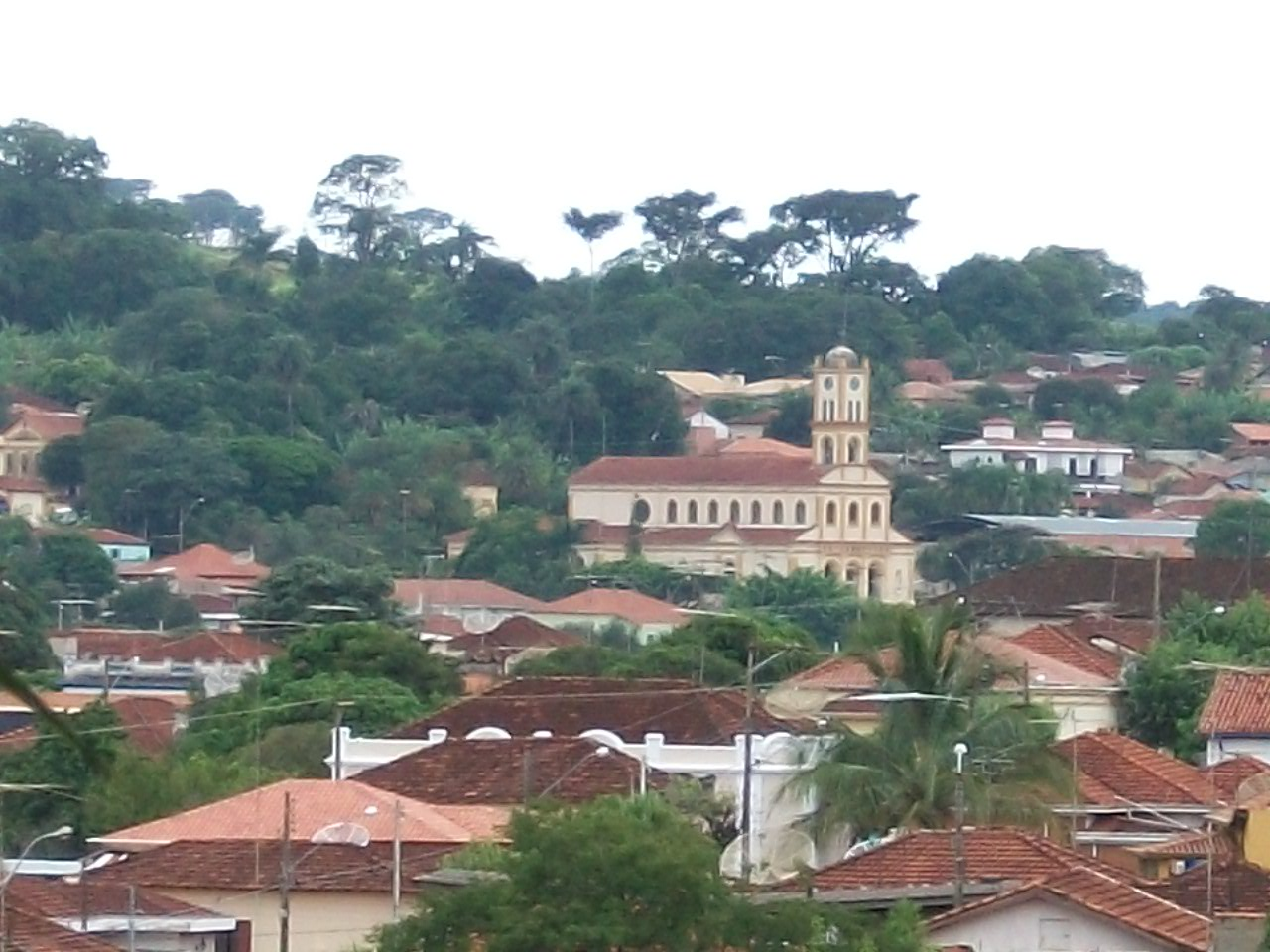 San Simon, SP, Brazil.